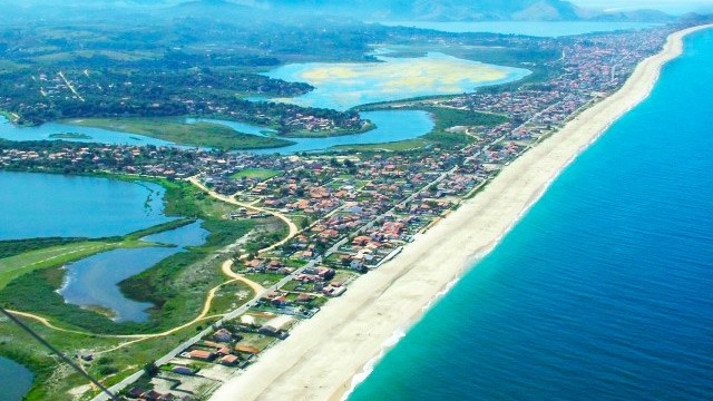 This picture is Maricá-RJ